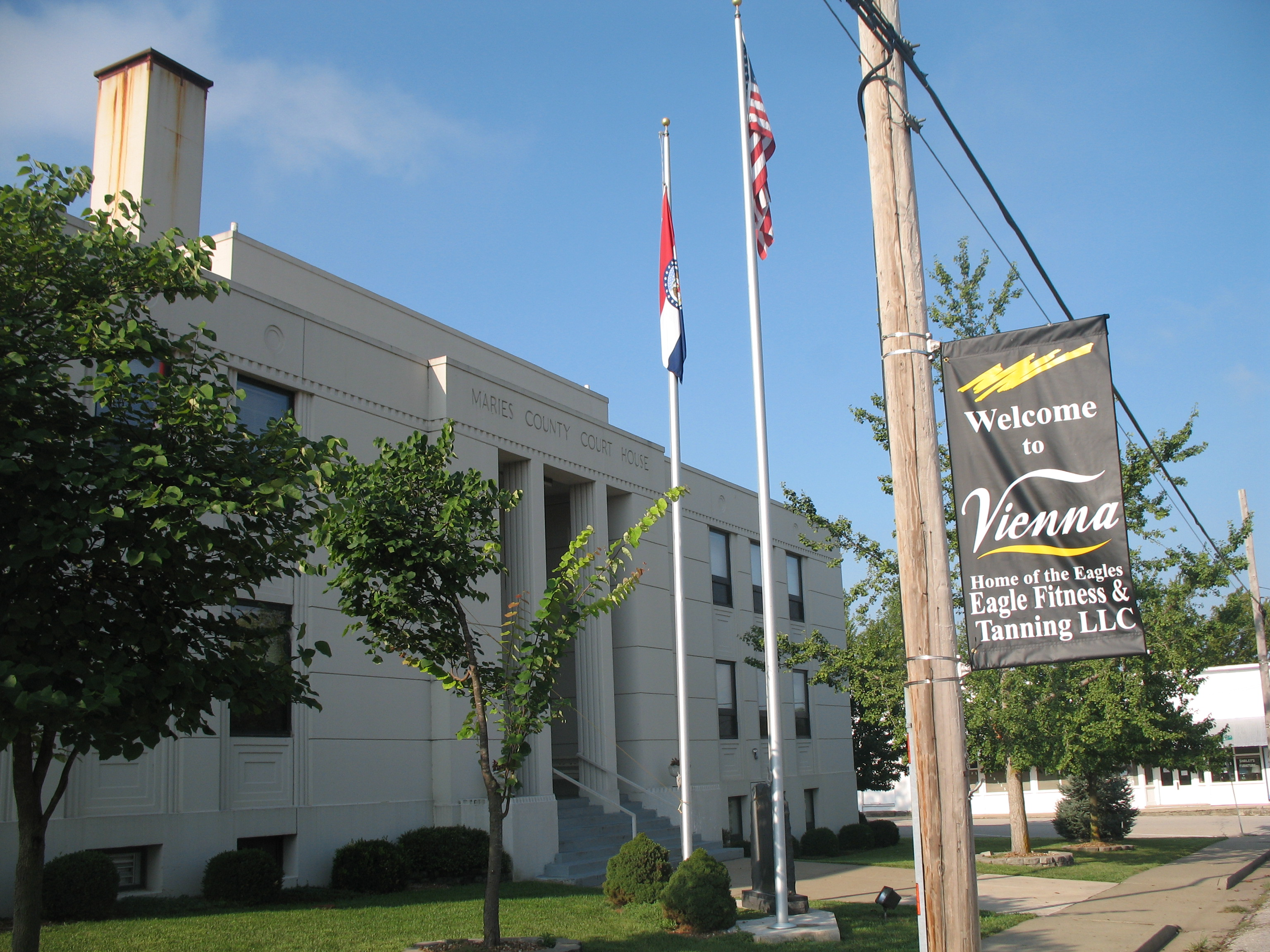 Mariess County Courthouse in Vienna. Photo by poster in September 2007.